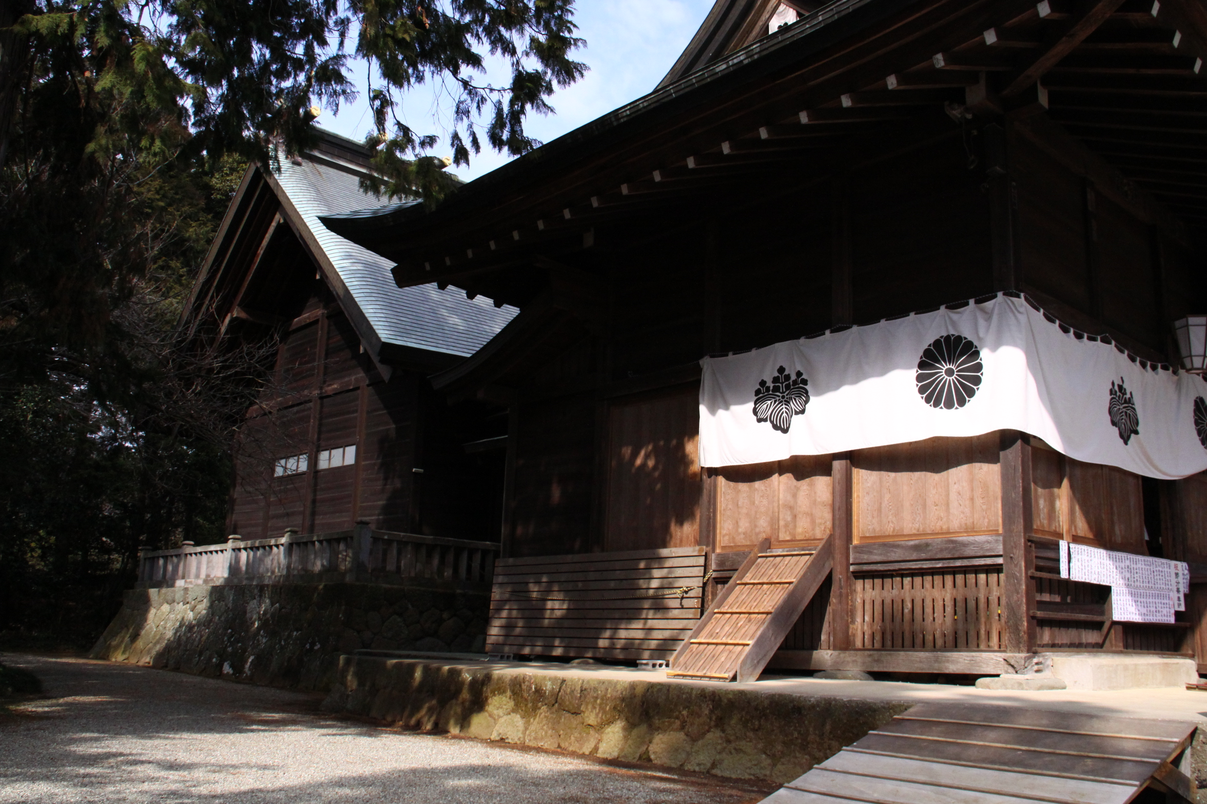 Hibita jinja Honden